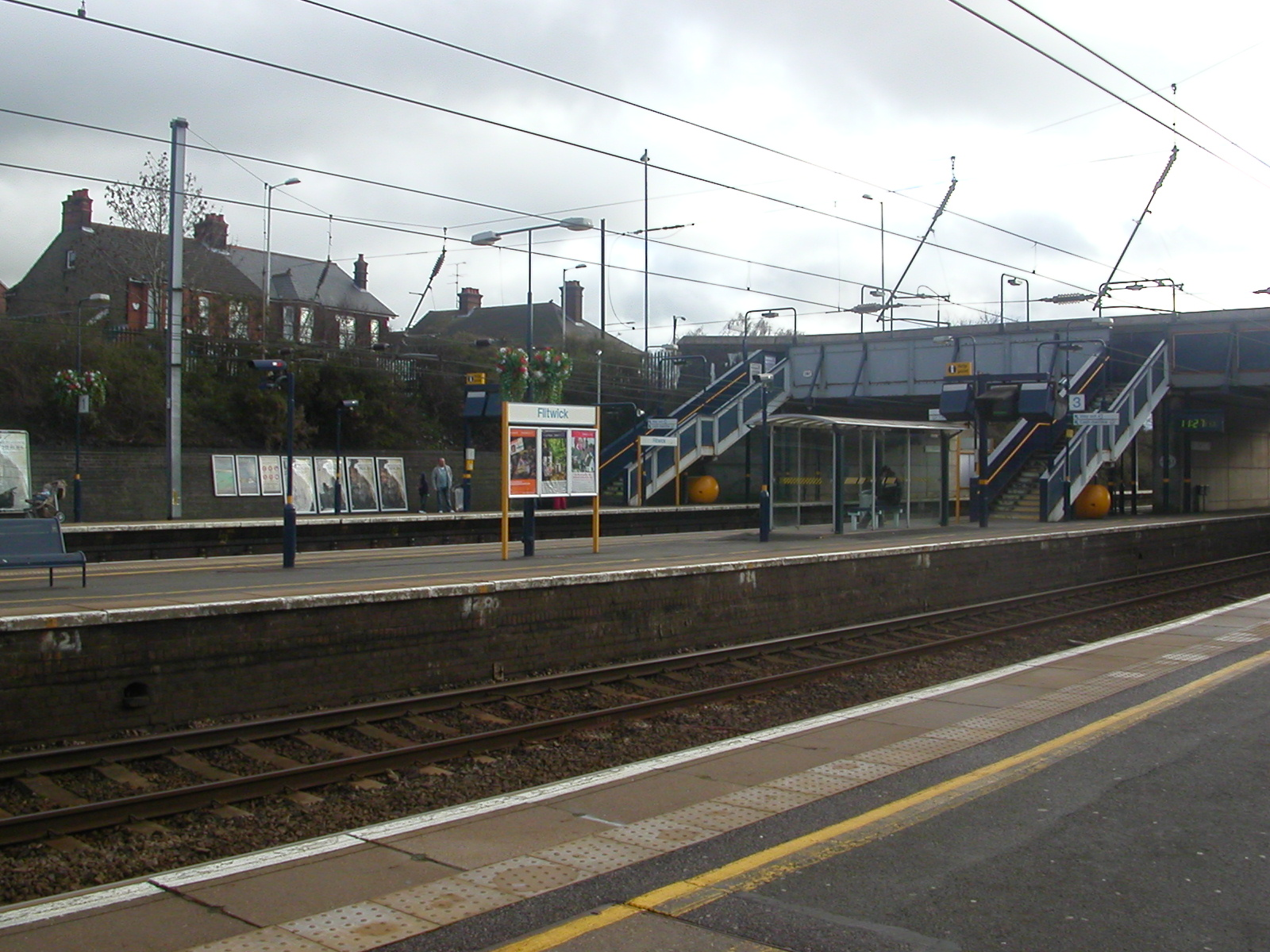 Southbound view from outside the main station building at Flitwick. Photographed on 13th January 2007.